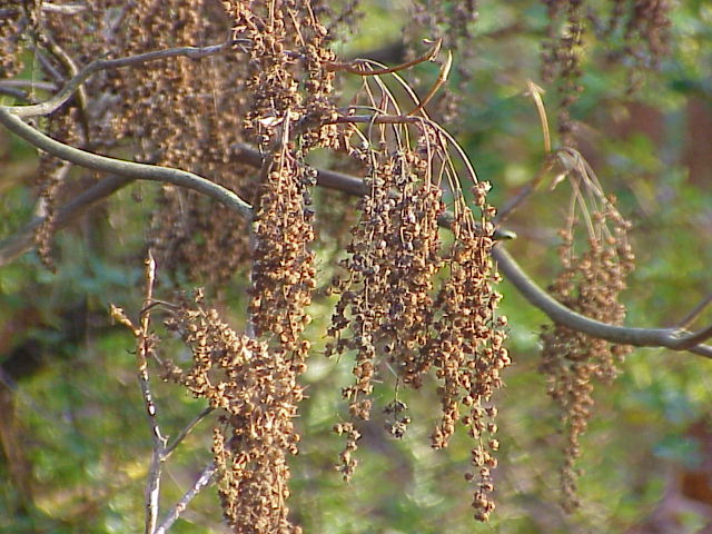 Species: Clethra barbinervis Family: Clethraceae Image No. 1